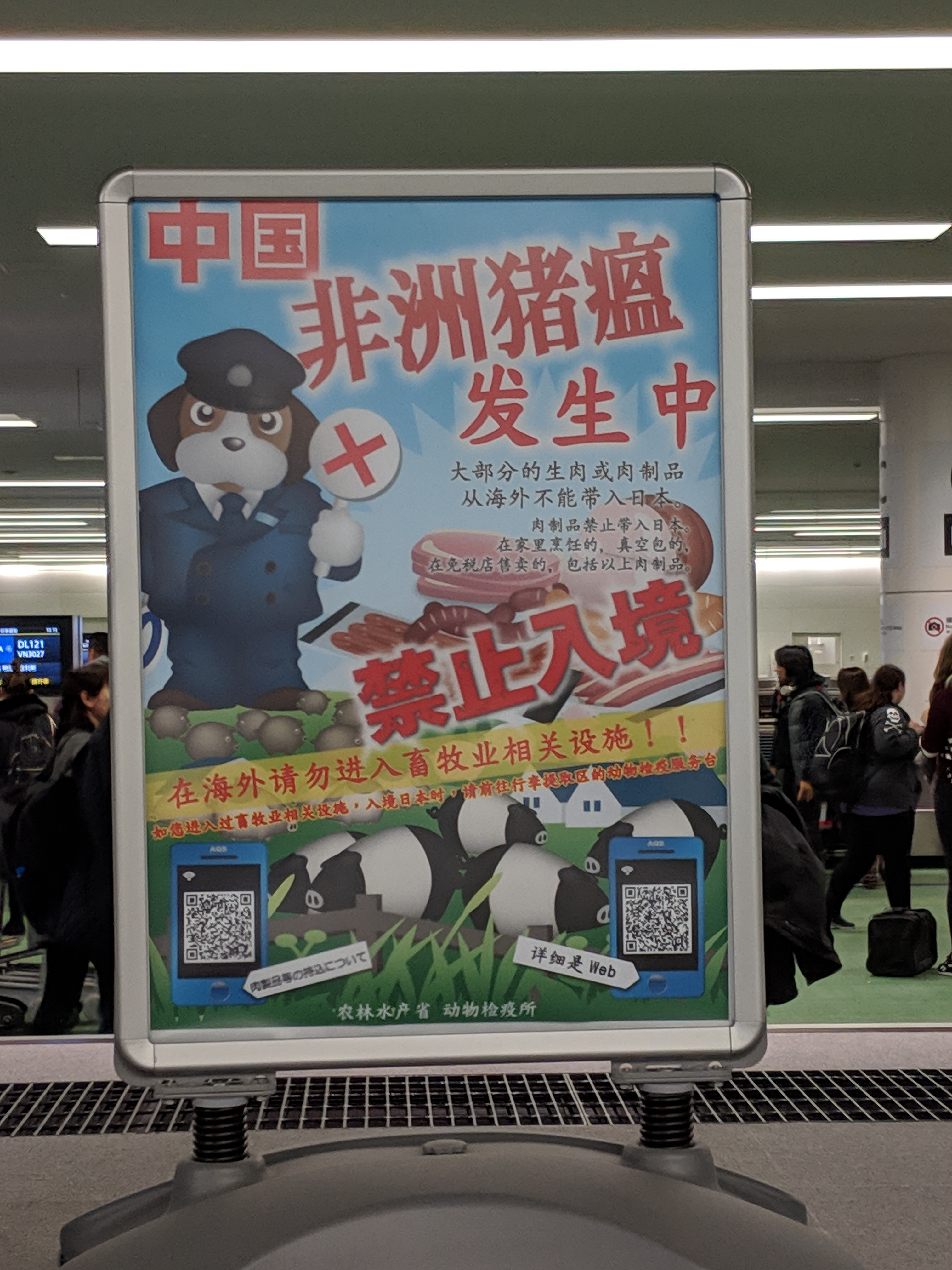 A poster in Tokyo Haneda Airport warning threats of 2018 Asfarviridae outbreak in China. Captured in baggage claim area, before quarantine and customs.